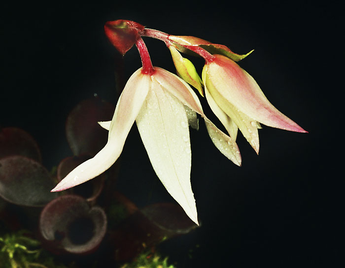 Heliamphora pulchella flora